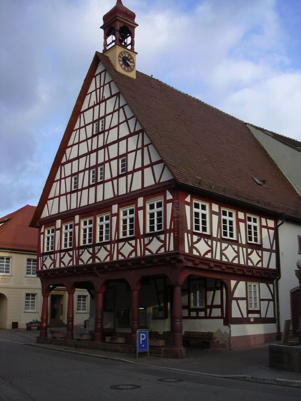 Town hall of Stein, Baden-Württemberg, Germany